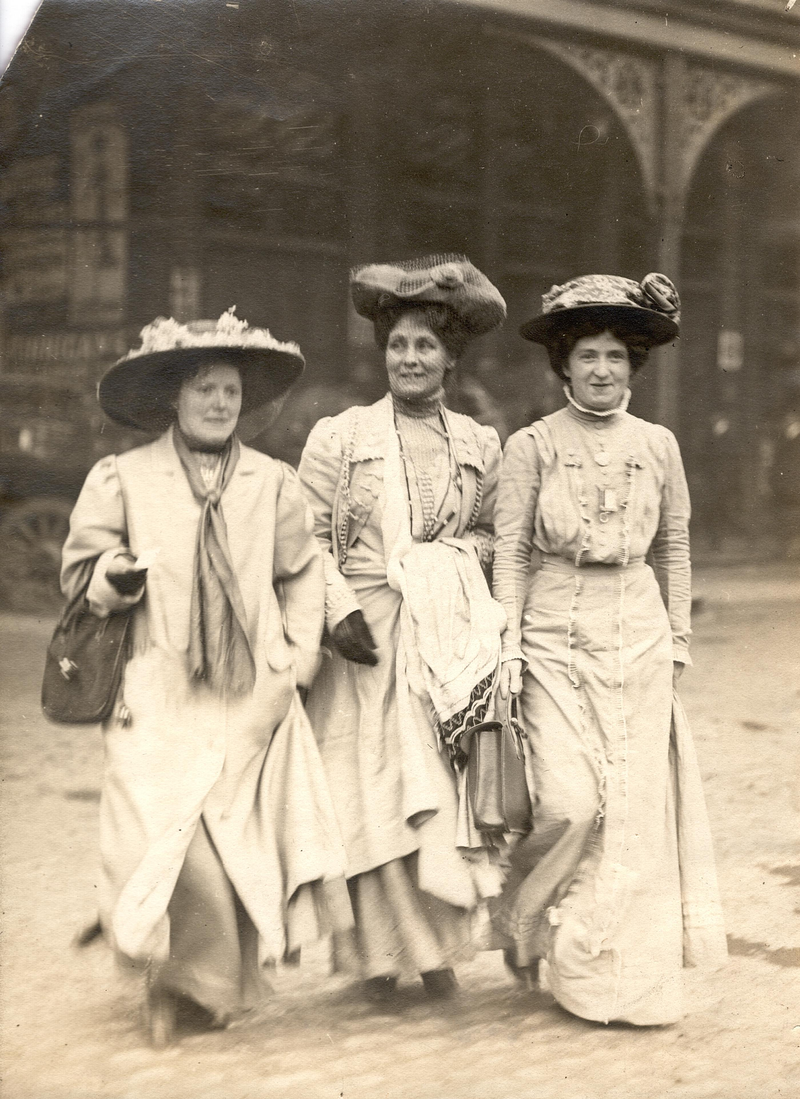 Mary Gawthorpe, Emmeline PankhurstAda Flatman TWL 2004 81